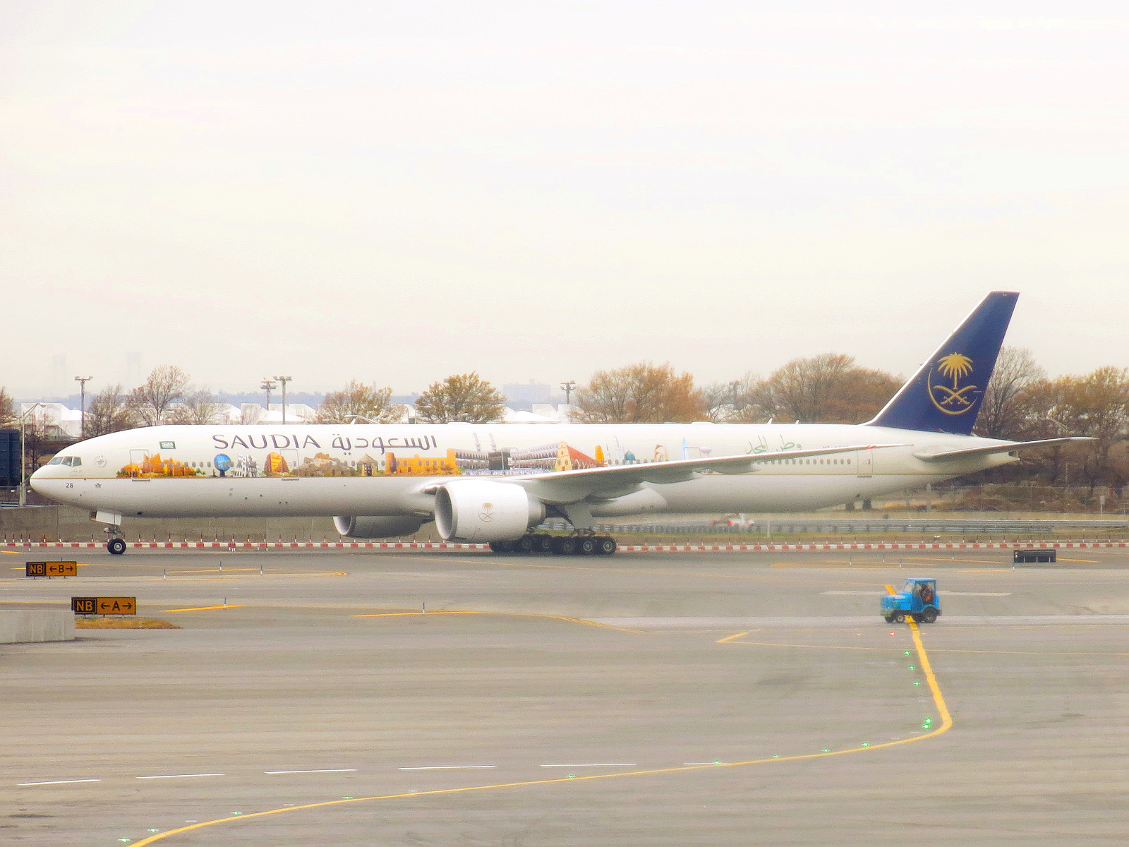 A Saudia (Saudi Arabian Airlines) Boeing 777-300ER is taxiing toward Terminal 1 at JFK Airport, having just completed Flight SV21. This plane wears Saudia's first ever special livery (other than SkyTeam livery).